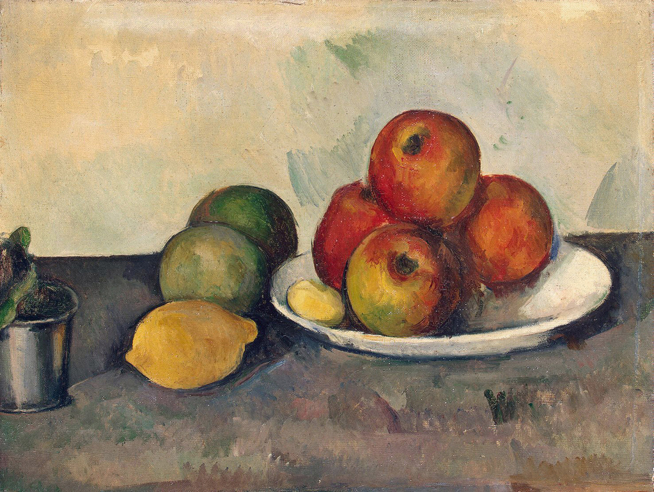 Paul Cézanne, Still Life With Apples (Stillleben mit Äpfeln), c. 1890Oil on canvas, 35.2 x 46.2 cm - The Hermitage, St. Petersburg